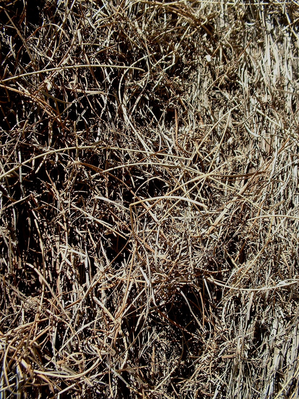 Bark of Allocasuarina inophloia at the Ilanot national arboretum, Israel.